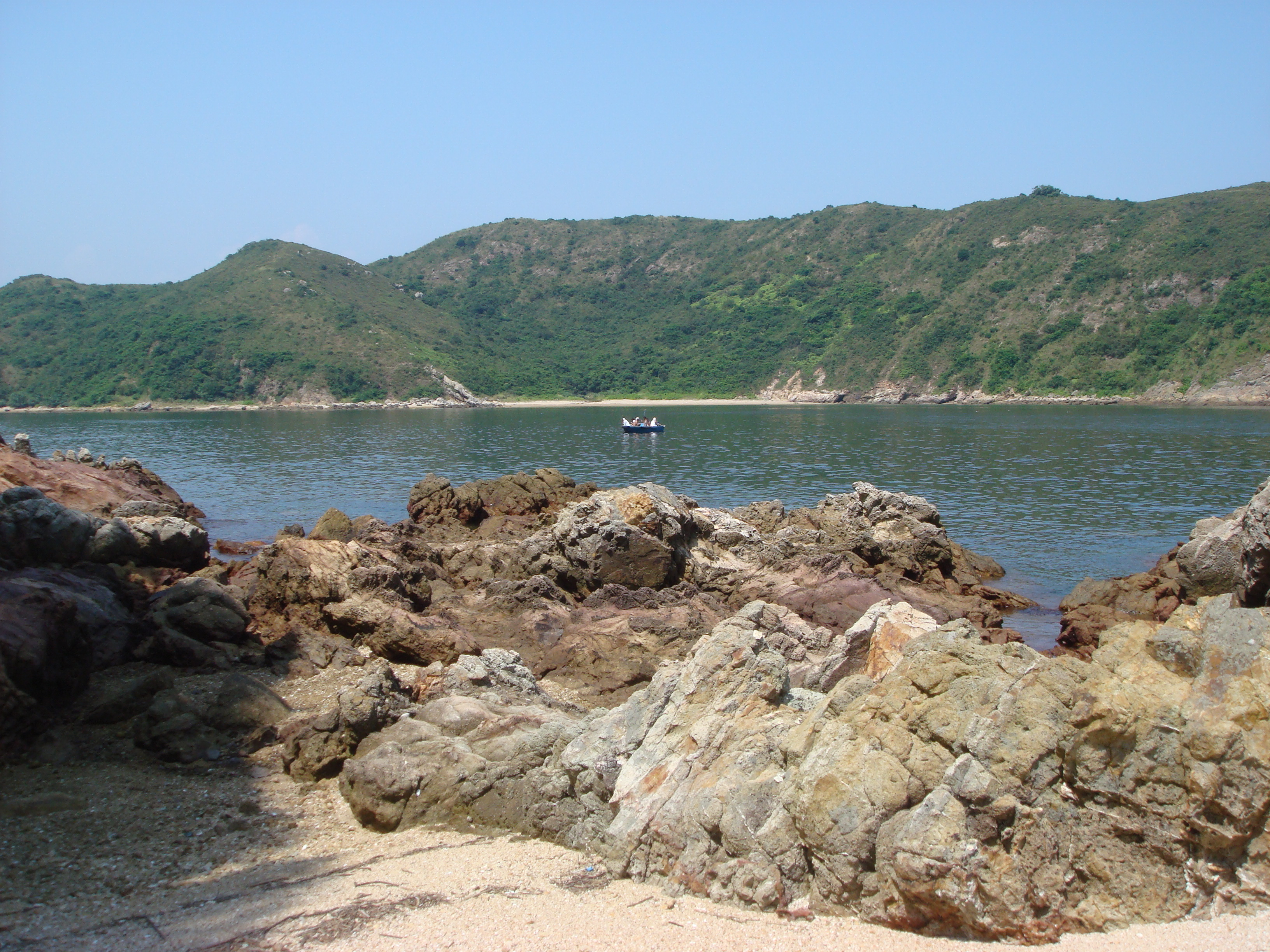 View from Double Island (at Tung Wan). Double Island & Crescent Island, Chik Mun Tau